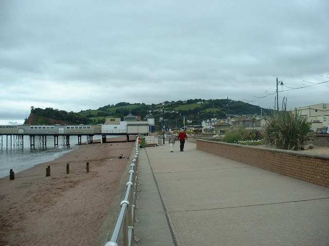 Seafront at Teignmouth. The seafront at Teignmouth, looking South.